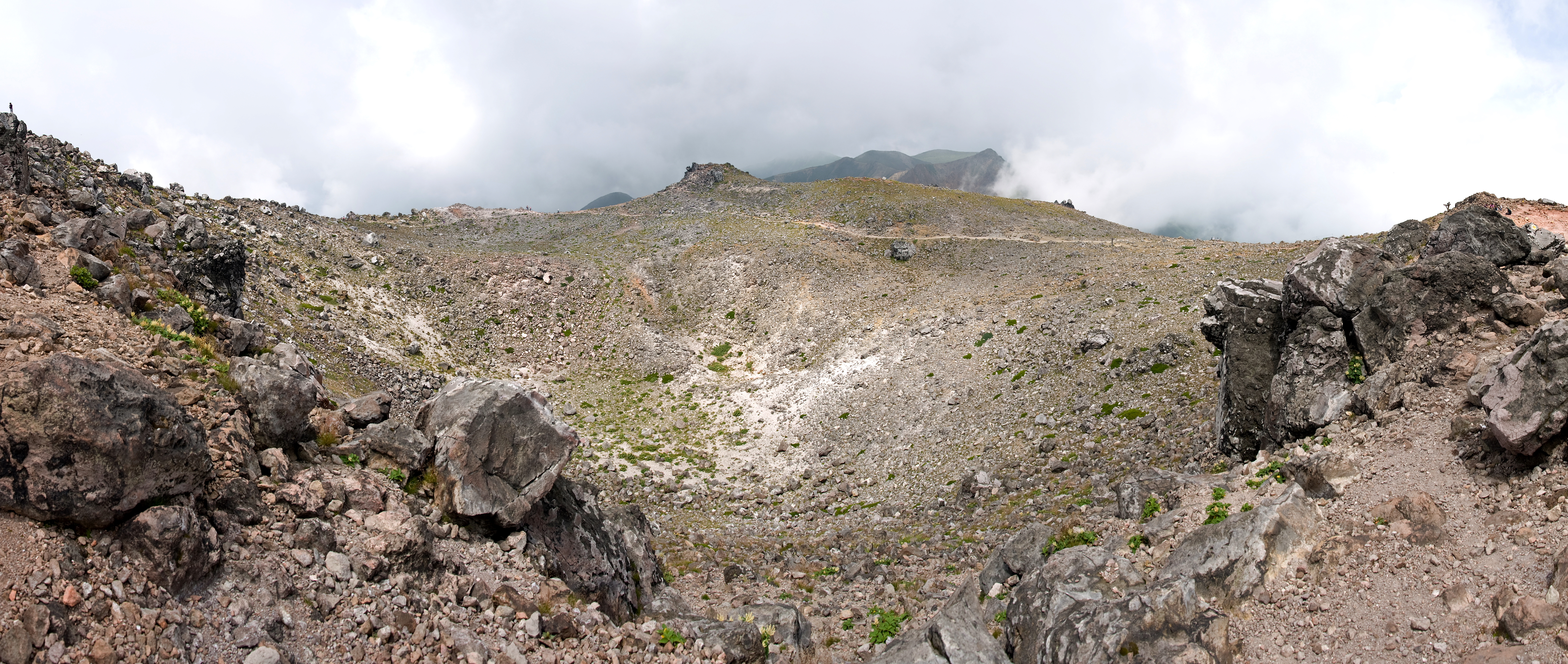 Mt.Chausudake, Nasu, Tochigi, Japan.